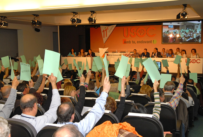 11th National Congrés from Trade Unions, USOC. Celebrated on 13-14 May 2010 El Prat de Llobregat (Barcelona)